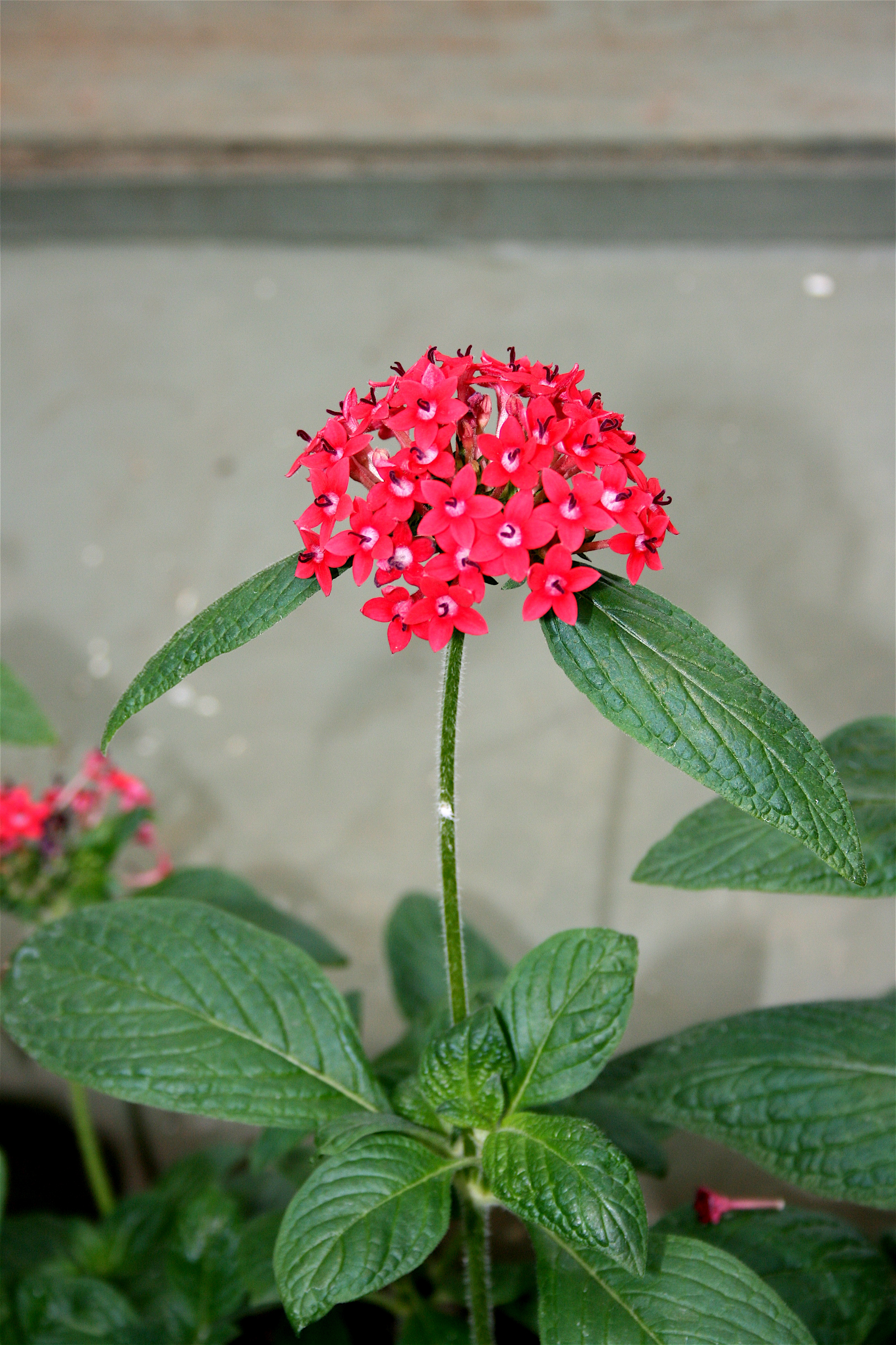 Penta (Pentas lancellata) at Frederik Meijer Gardens & Sculpture Park in Grand Rapids, MI.